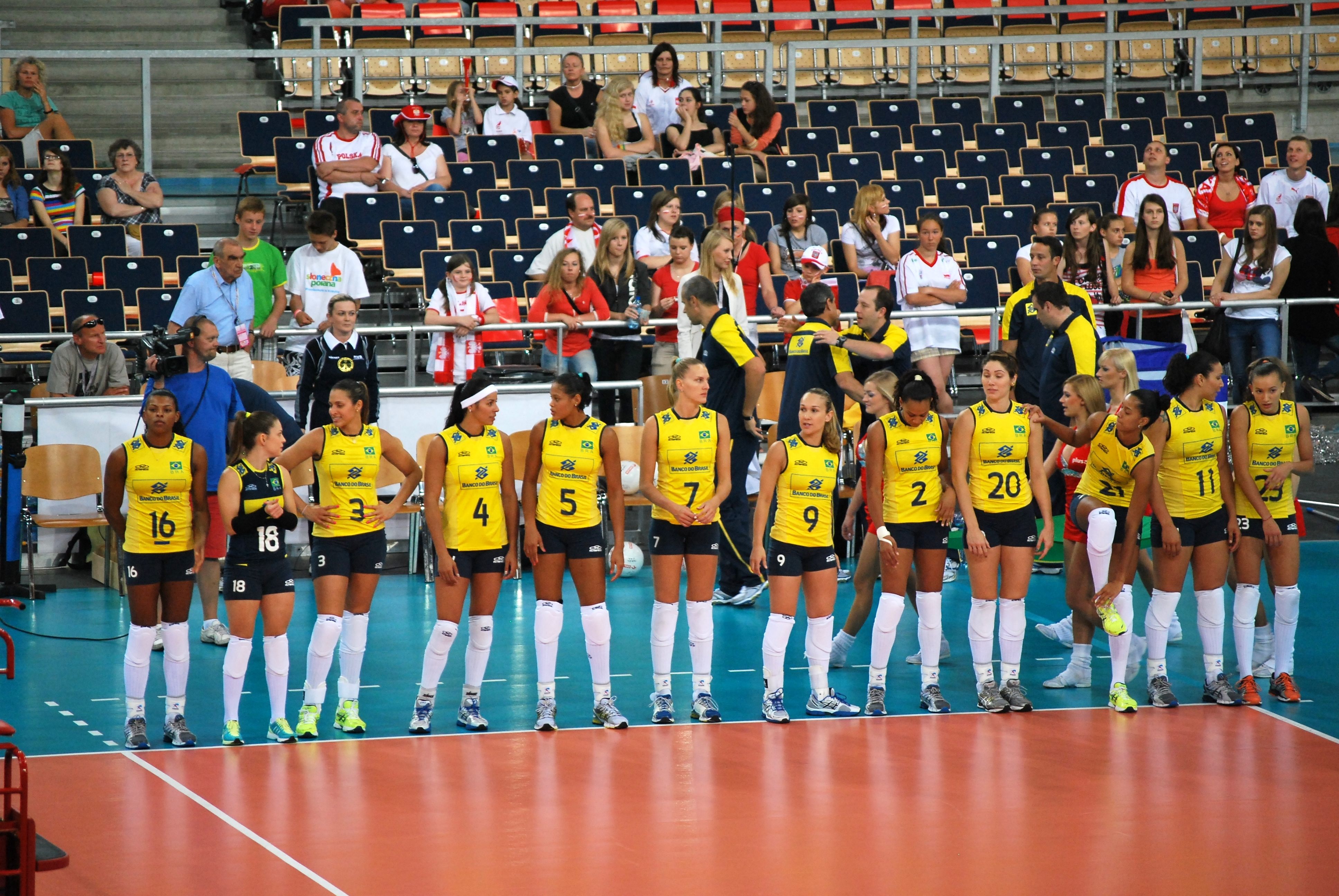 Brasilian Team, Grand Prix Łódź, Poland